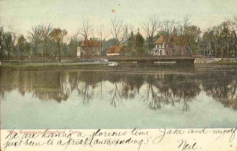 Scene of houses and bridge on the Rippowam River (also known as "Mill River" in Downtown Stamford) from a postcard mailed in 1906. Caption states: "The Rippowam, Stamford, Conn." Message (on front of postcard) reads: "We are having a glorious time. Jake and myself just been to a trial (autospeeding). Neil." Store Web page states: "circa 1906 by the Globe Stamp Company Stamford Conn." Other side of postcard is also displayed on a store Web page, showing postmark from Darien, Connecticut from August 28, 1906, mailed to "Mr. Percy A. Coone ["Goone"?]; 122 West 12th St., "N. Y. City" Along left side of address side (this is an undivided-back postcard): Globe Stamp Company, Stamford, Conn. — Made in Germany"